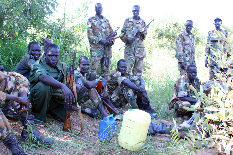 SPLA soldiers in what was then Southern Sudan